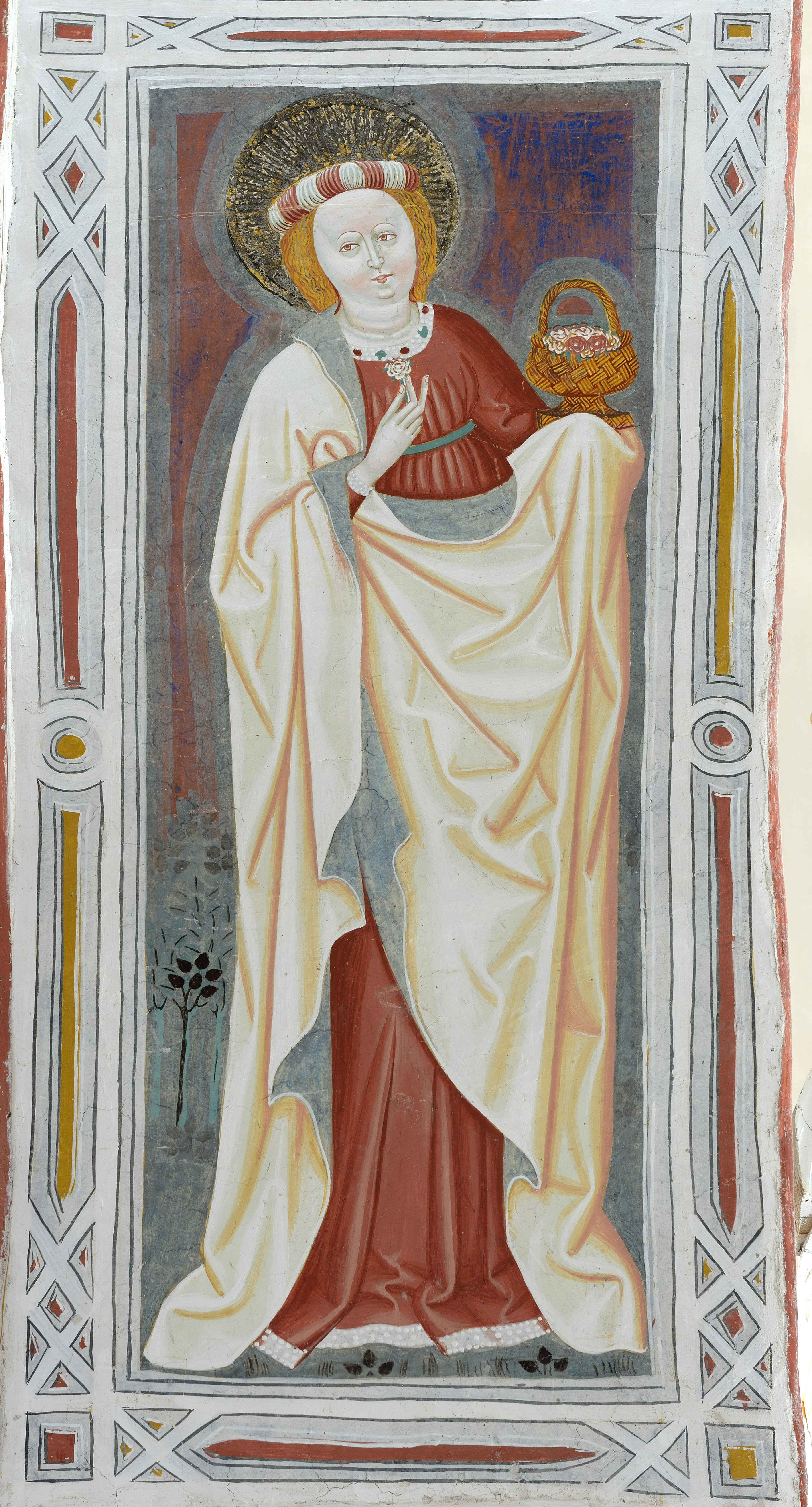 Dorothea of Caesarea in a 15th century fresco on the apsidal arch of the St. Jacob church in Urtijëi, in Val Gardena.